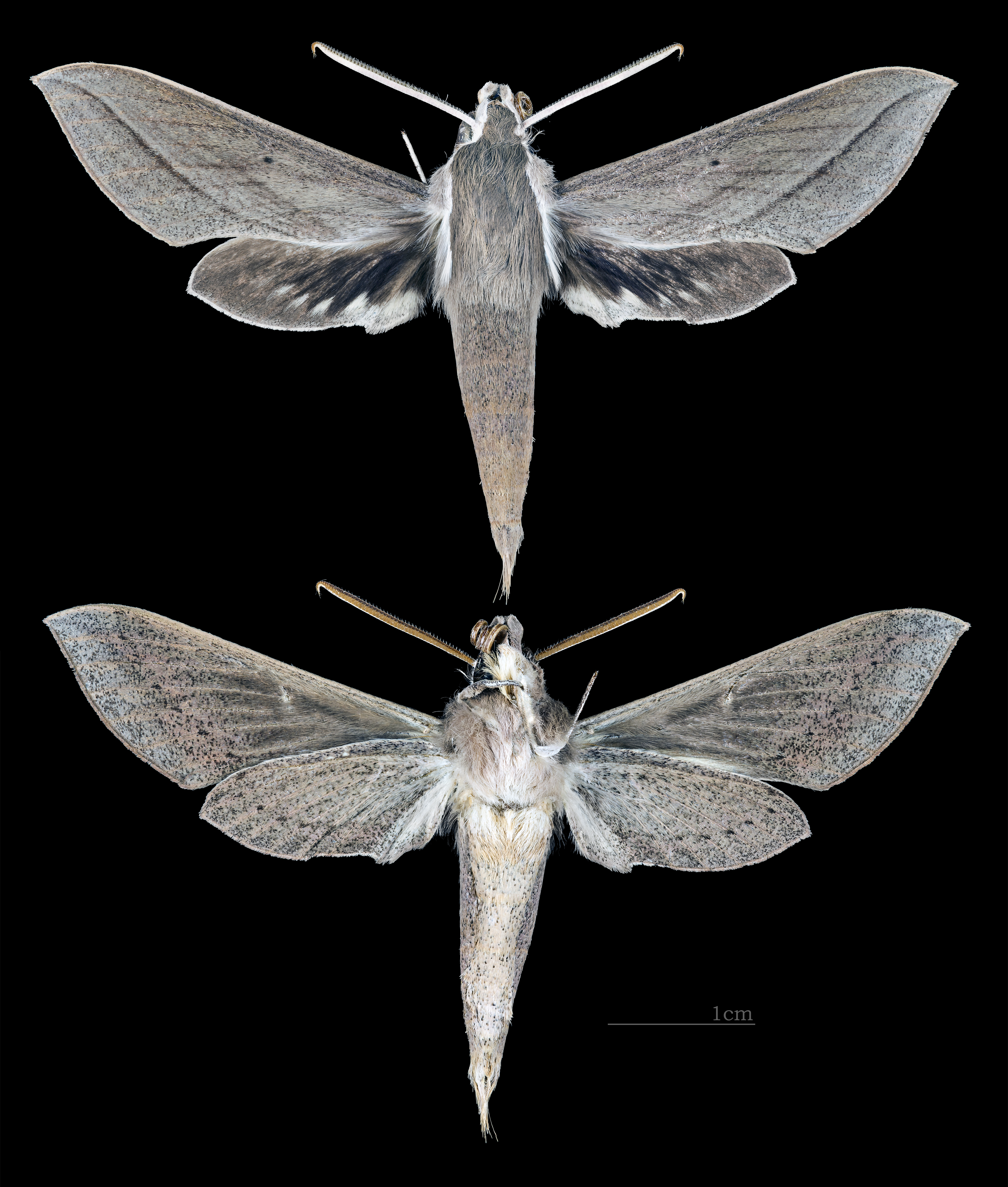 Xylophanes suana - Two views of same specimen Collection of the Mathematician Laurent Schwartz